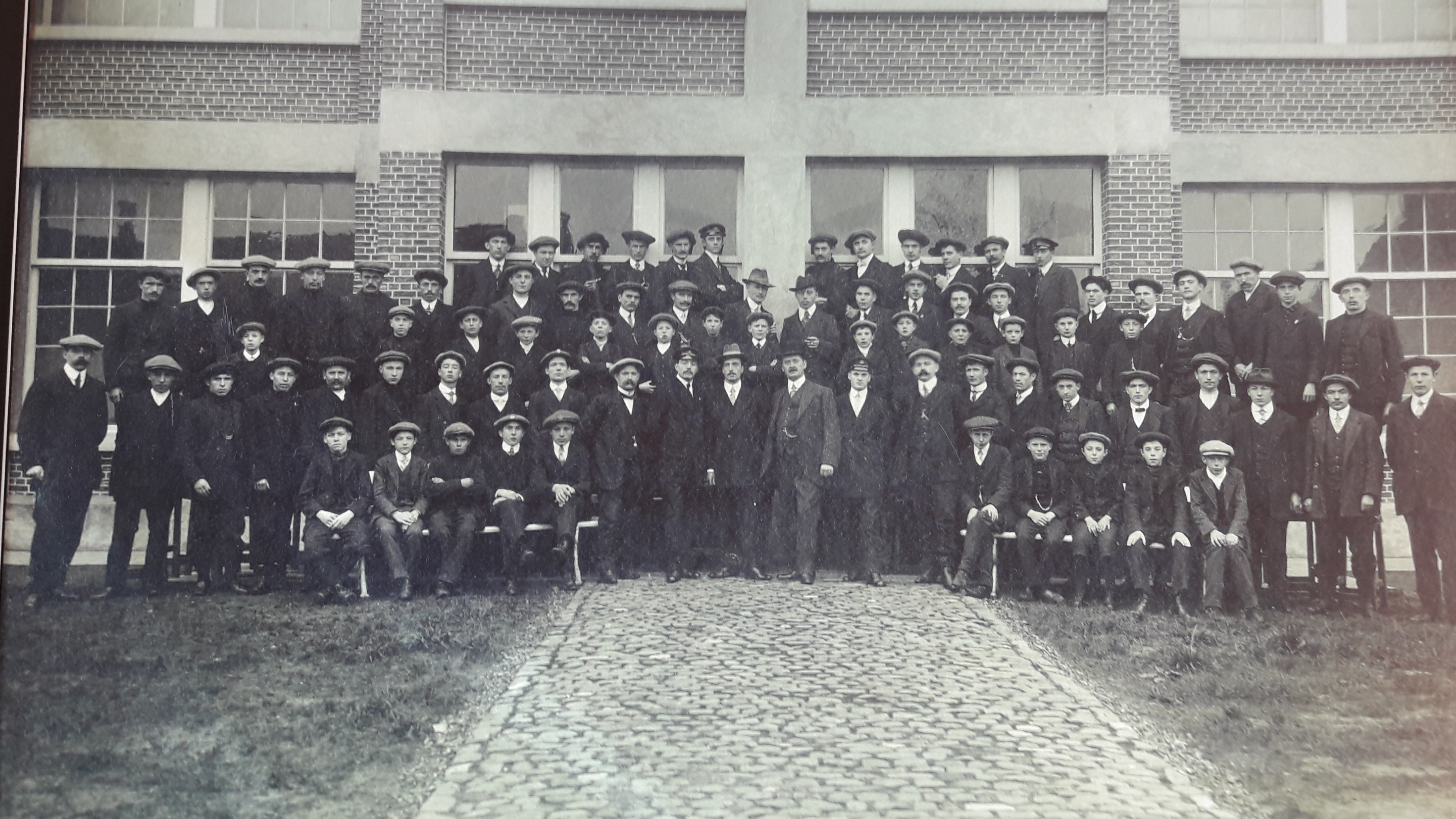 Groups picture diamond company De la Montagne